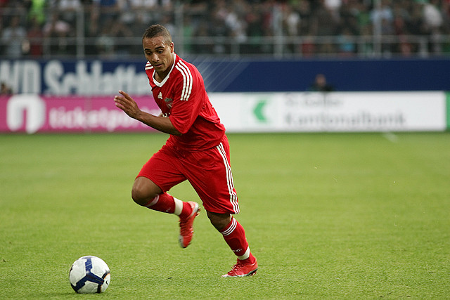 1D mk II & 300mm f/4 (@ fcsg - liverpool fc)